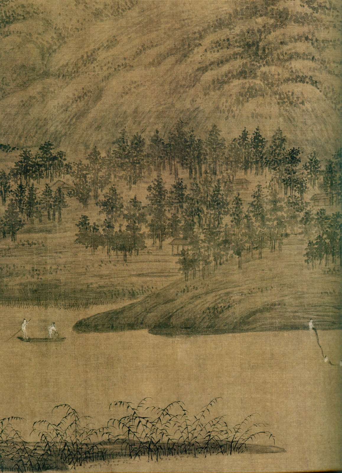 Detail from the painting Xiao and Xiang Rivers. Located at the Palace Museum, Beijing.